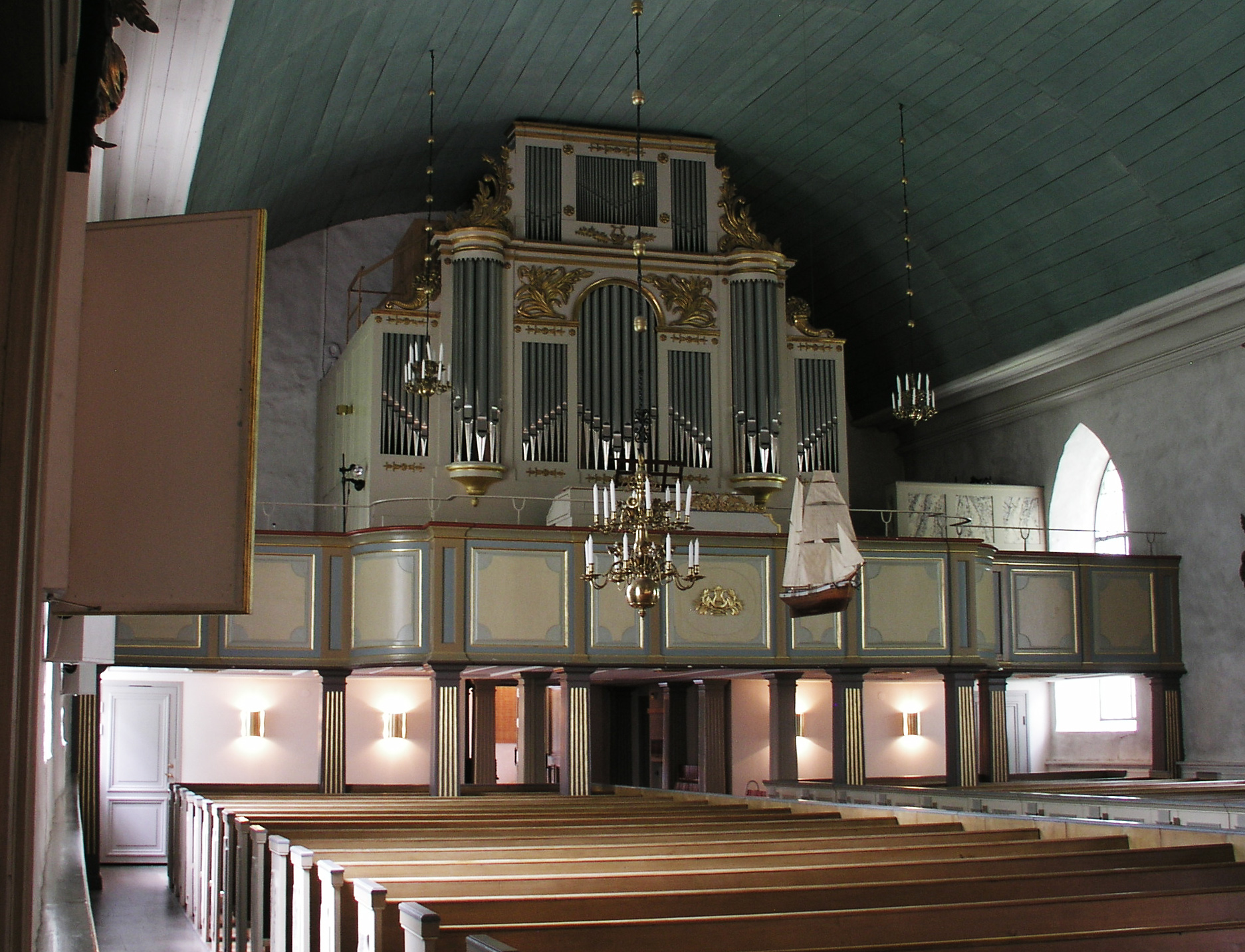 Motala kyrka The picture was taken the 29th July 2005 by Håkan Svensson (Xauxa)